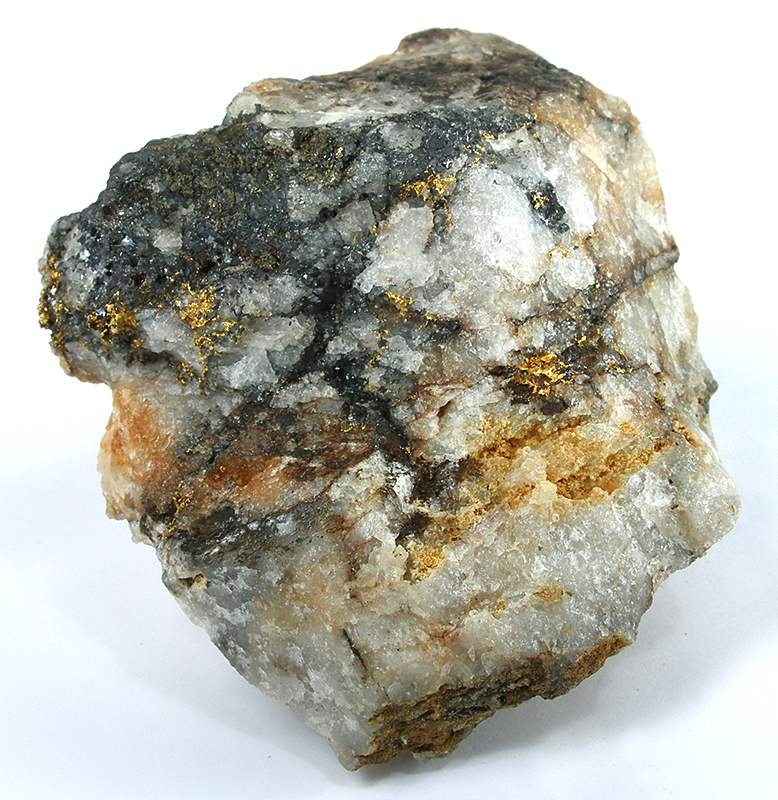 Gold Locality: Dahlonega, Lumpkin County, Georgia, USA (Locality at ) Size: cabinet, 8 x 7 x 5 cm Gold A very rare locality piece with identifying and unusual matrix, showing rich seams of gold that seem to run throughout. Valid Georgia golds, and they must have enough matrix like this to be sure of it, are uncommon. This is likely a VERY old specimen, though no telling how old. It comes from the Richard Hauck gold collection, on display until recently in the Sterling Hill Mining Museum. Important, oldtime, US classic. 266 grams in weight, though obviously most of it is not gold.